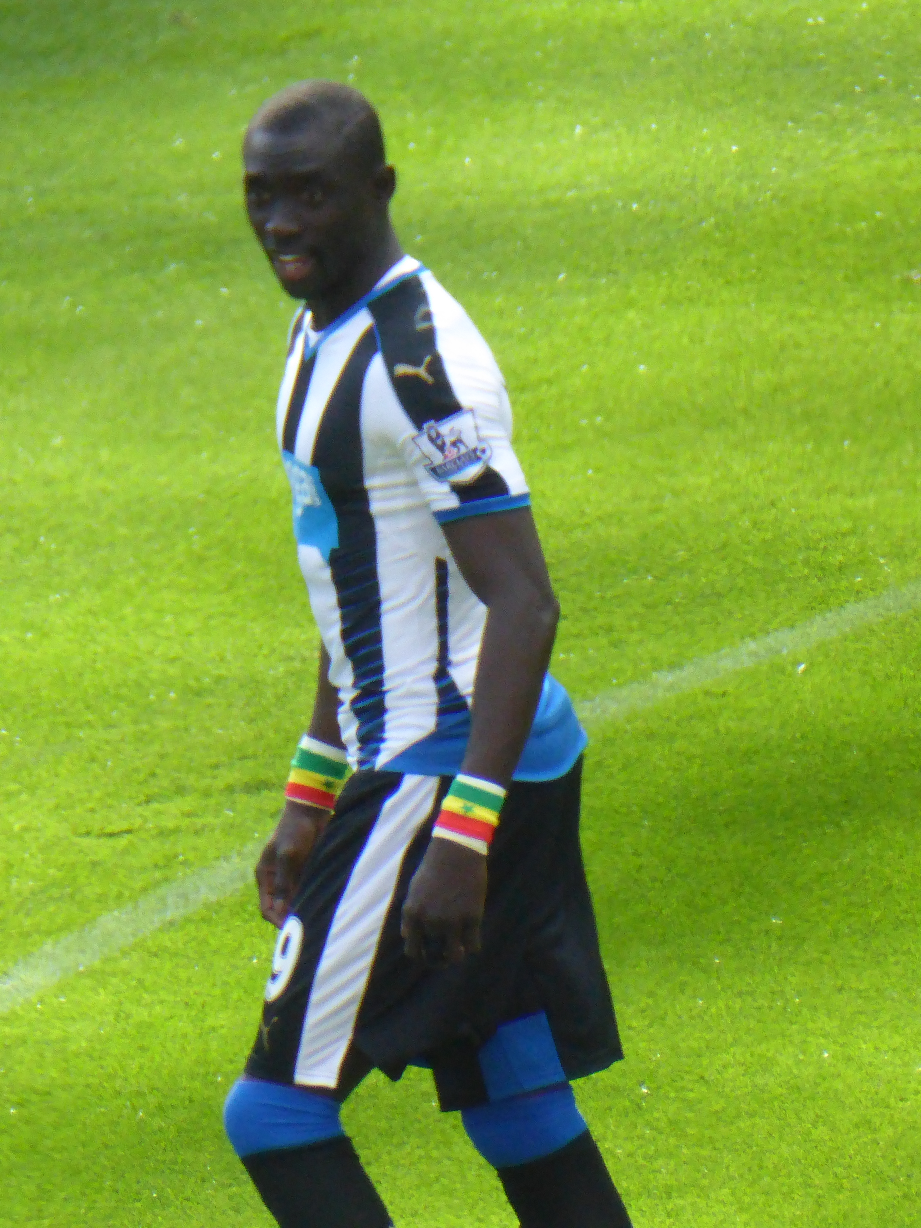 Newcastle United vs Watford (1-2), Barclays Premier League, St James' Park, Newcastle upon Tyne, Tyne and Wear, England, September 2015